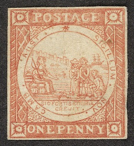 Postal stamp issued by New South Wales on 1st January 1850, valued at 1d (one penny) and printed in red ink. One of three "Sydney Views", the others being valued at 2d and 3d. The illustration shows a view of the town of Sydney behind a figure of Industry releasing convicts from their chains and pointing to a ploughed field. Around the image is the text "Sigillum Nov. Camb. Aust." ("Seal of New South Wales") with the motto "Six fortis Etruria crevit" ("thus mighty Etruria grew") underneath. The stamp is unused. Held and digitised by the British Library.